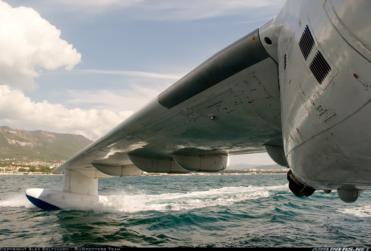 Beriev BE-200ChS RF-32768 (cn 76820002602)